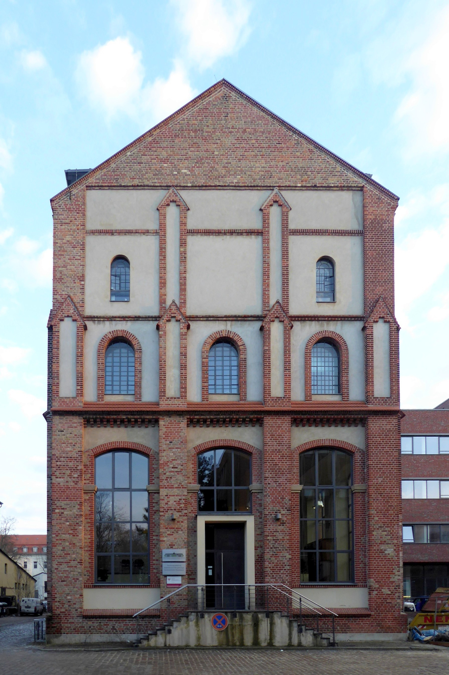 Versuchs- und Lehranstalt für Brauerei ehemaliges Sudhaus